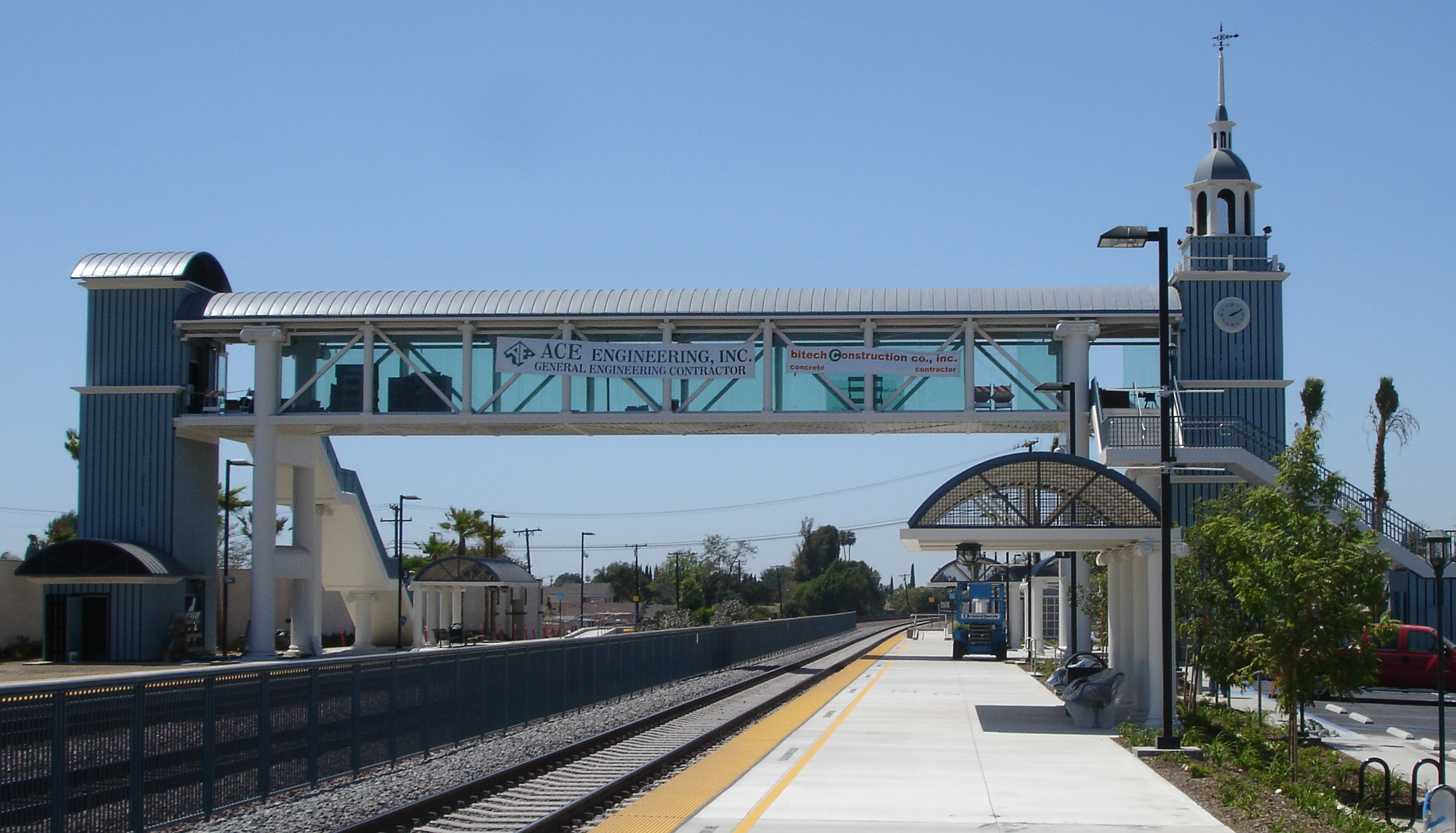 Buena Park Metrolink Station — on the Orange County Line of the Metrolink public transit system. Just before 2007 opening in Buena Park, Southern California.